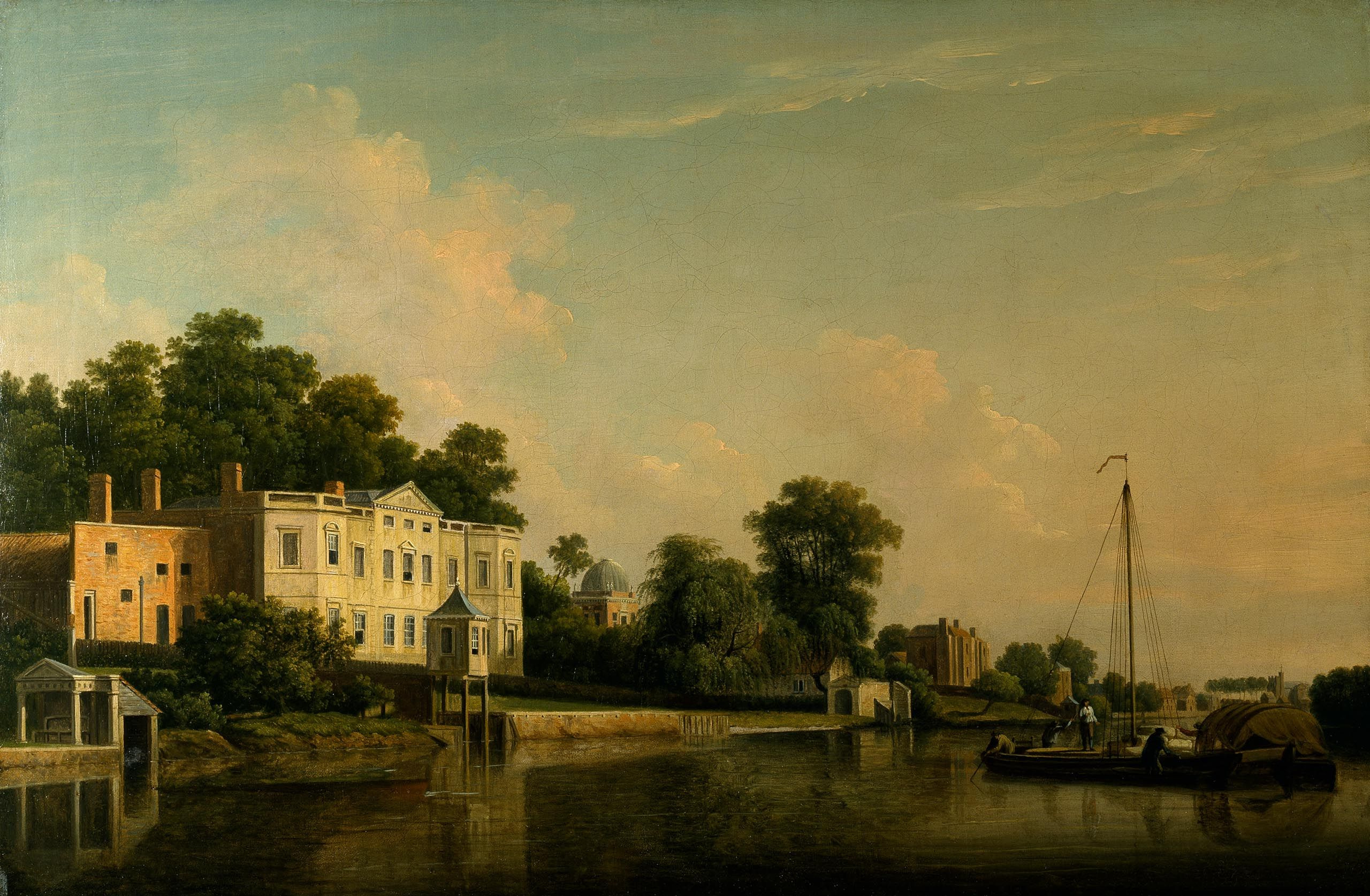 A View of Alexander Pope's Villa, Twickenham, on the Banks of the Thames.